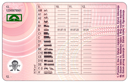 European Croatian driving licence (back side)